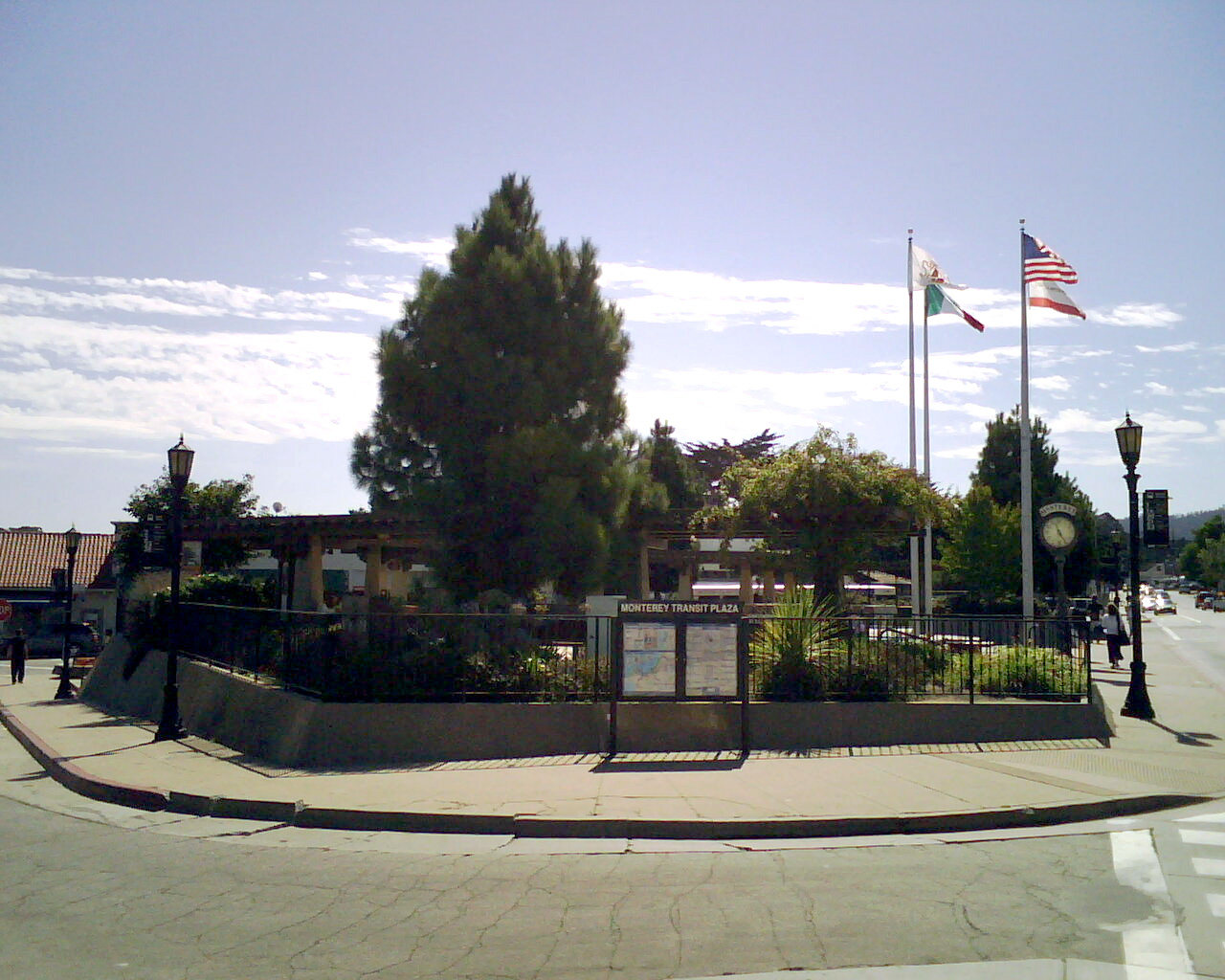 Monterey Transit Plaza in downtown Monterey, California